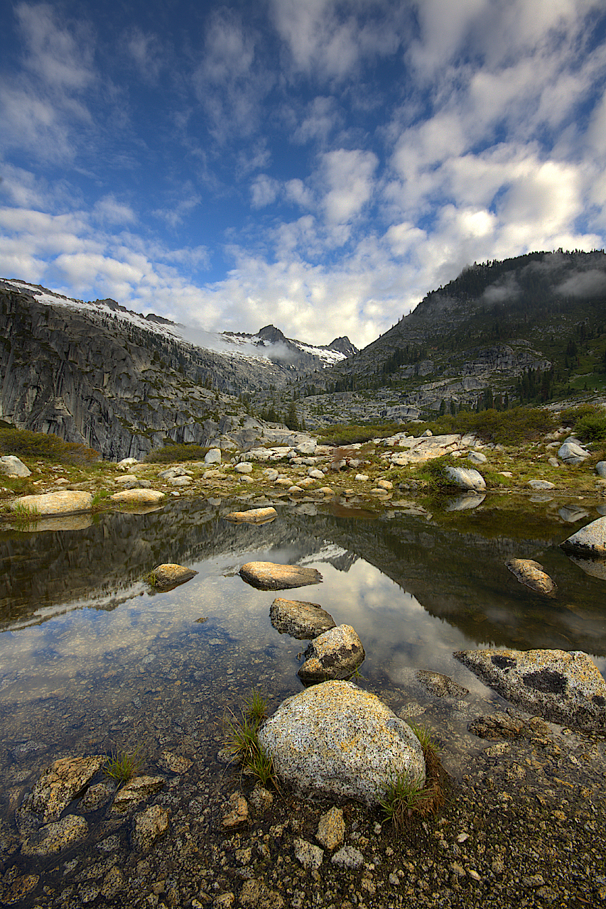 A tarn near upper Canyon Creek Lake, with Wedding Cake and Thompson Peak. Trinity Alps, California.